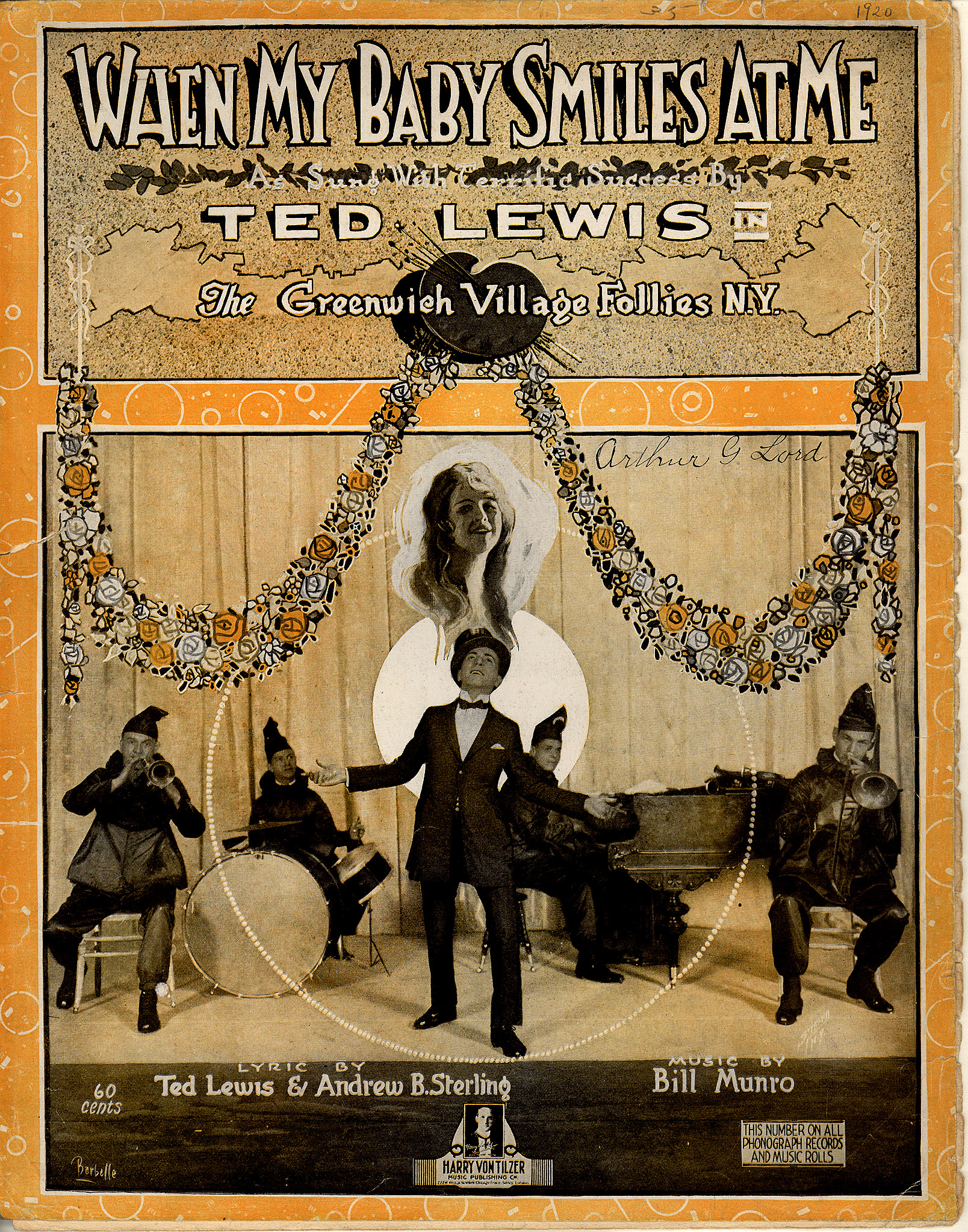 "When My Baby Smiles At Me". 1920 sheet music cover, with photo of bandleader Ted Lewis and his Jazz Band.